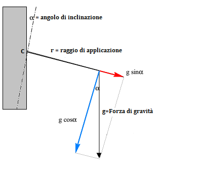 Simplified diagram of the horizontal pendulum